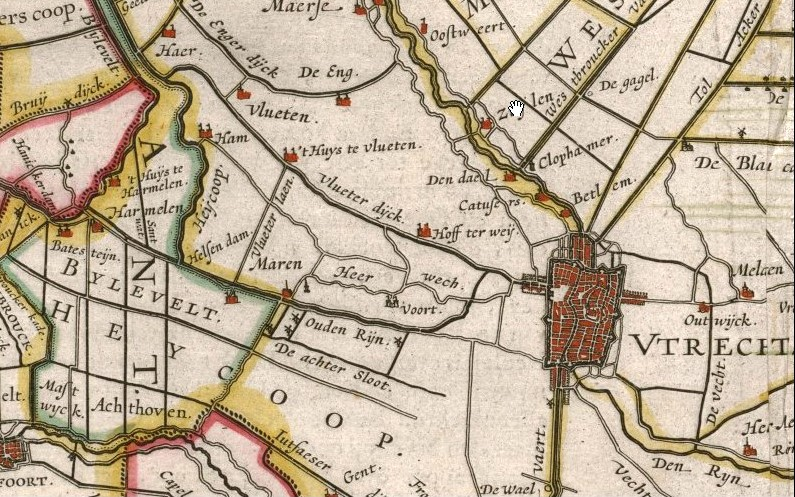 Old Rhine, detail from the Atlas Maior of Blaeu